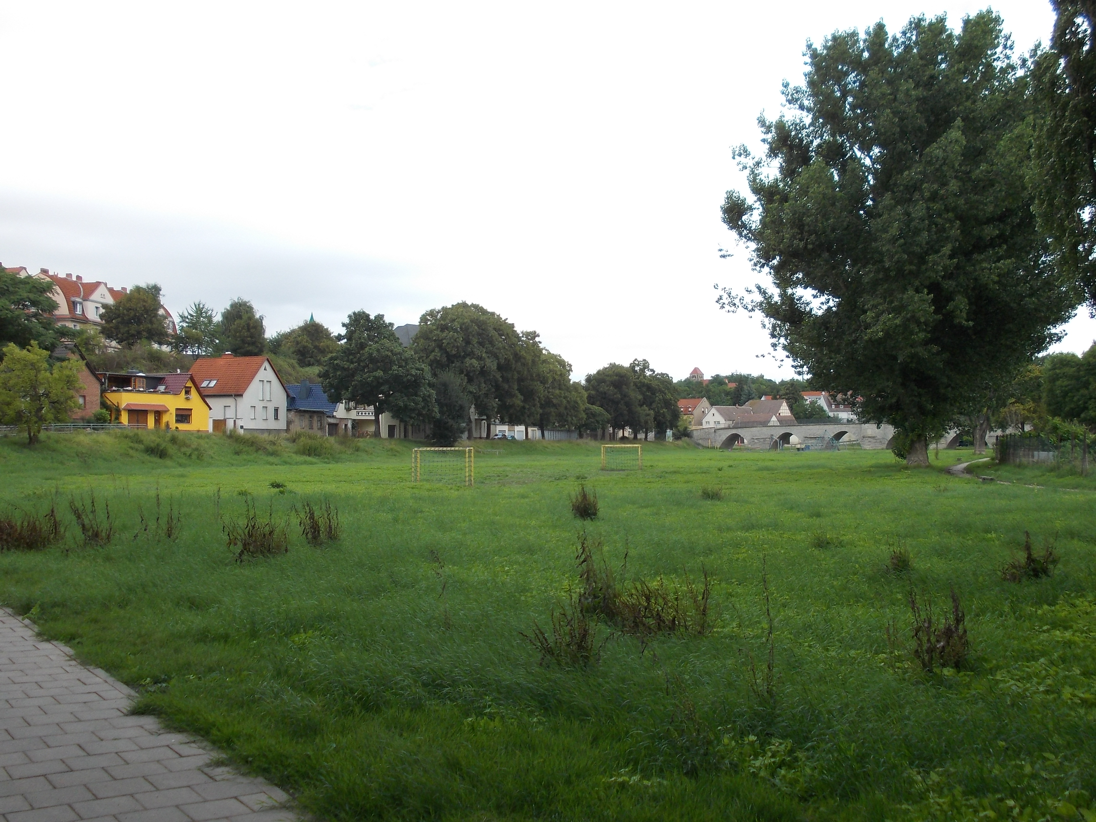 Waldauer Anger, a former branch of the Saale river (Bernburg, district: Salzlandkreis, Saxony-Anhalt) with the flood bridge in the background